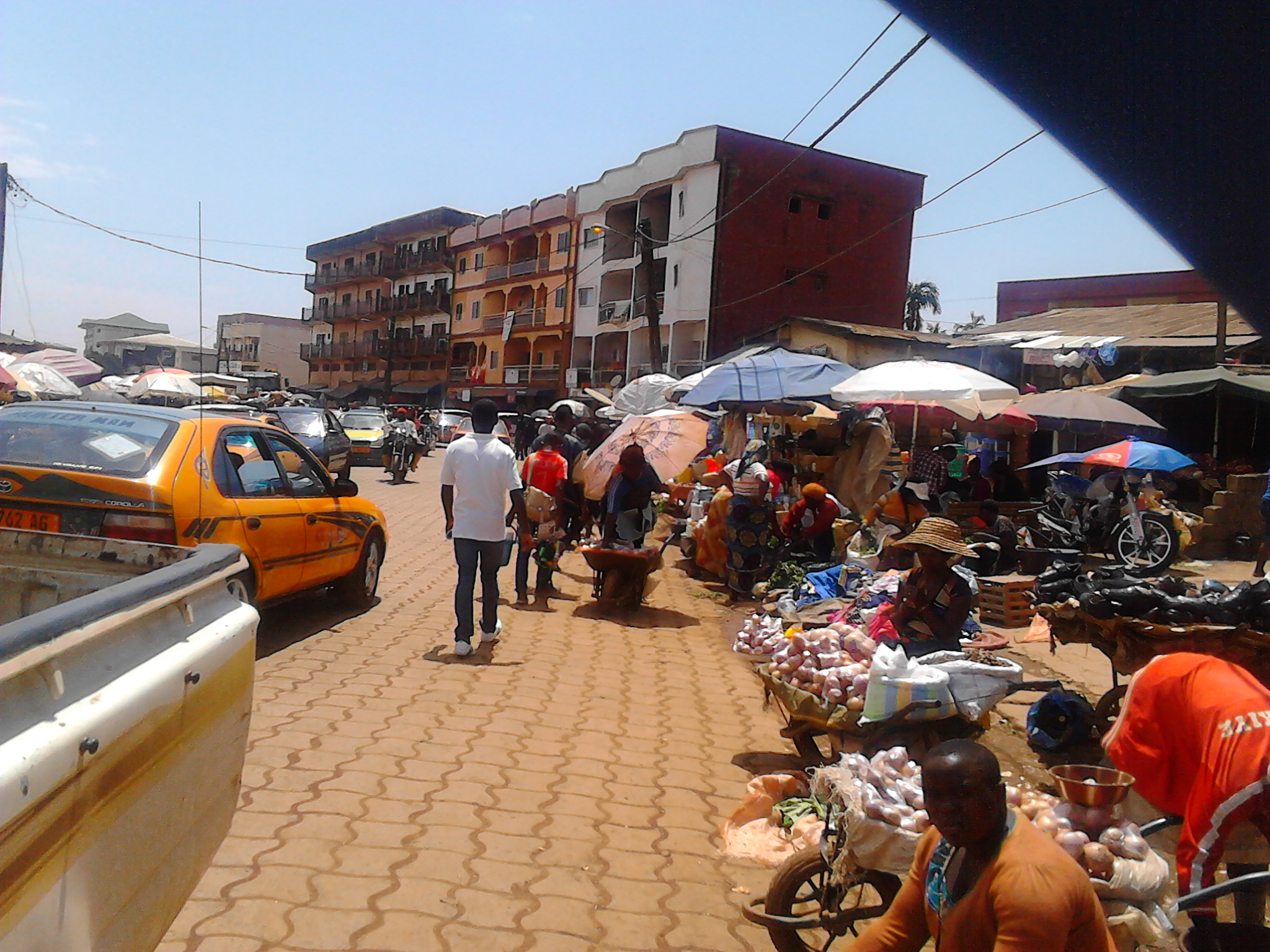 This is a street in Bamenda, Cameroon, where a diversity of goods and services are being sold, from food to clothes, to taxi and haircutting services This is an image of "African people at work" from Cameroon